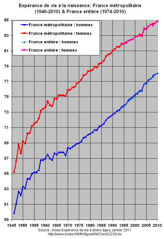 Life expectancy at birth : Metropolitan France (1946-2000) and France including DOMs (1974_2010)